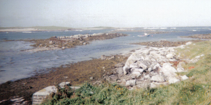 Vallay Island, or Eilean Bhalaigh, is a now-uninhabited island located by the northwest coast of North Uist (Uibhist a Tuath), Outer Hebrides. Here its southwest coast is seen from shore at high tide.